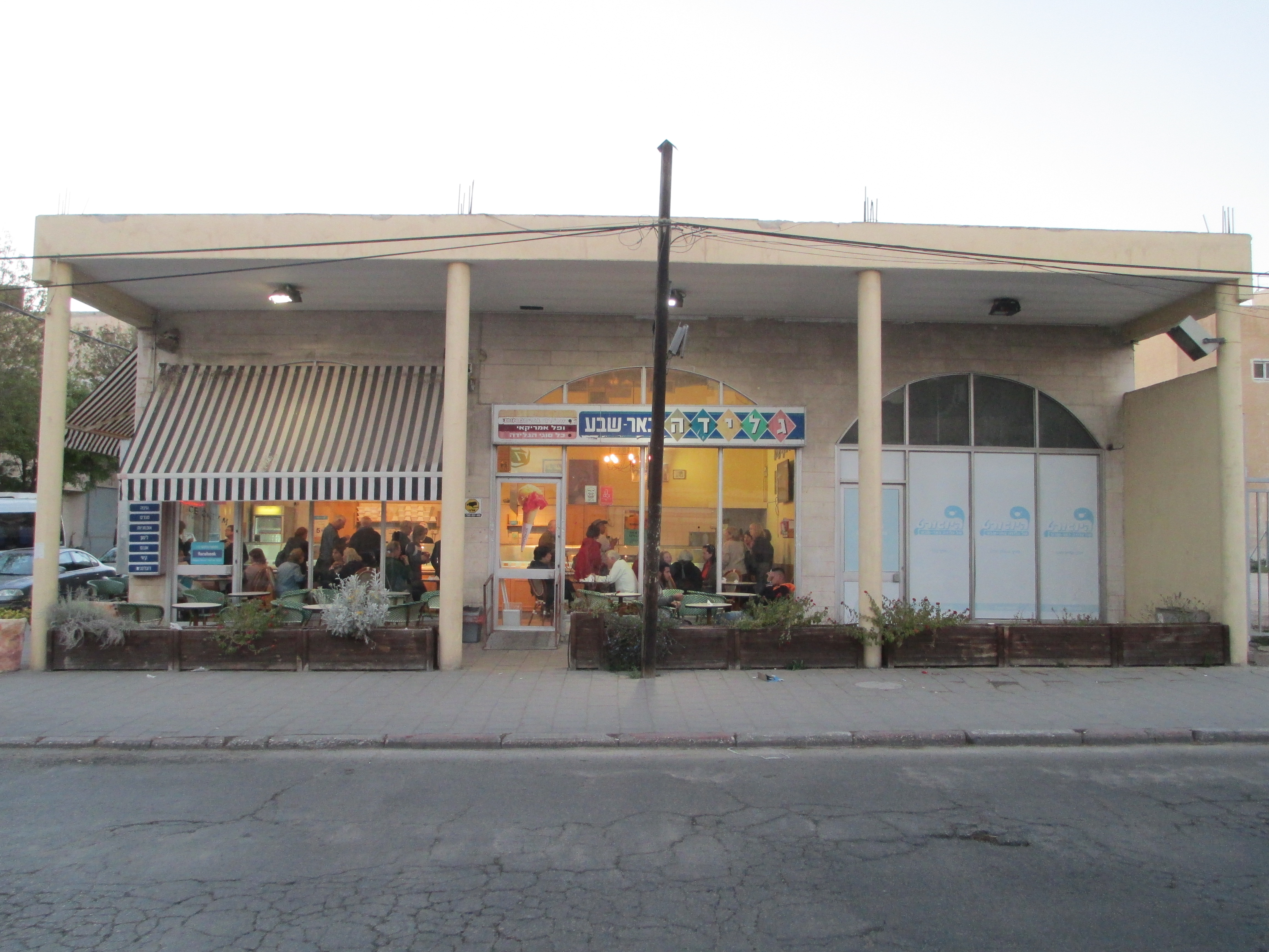 Beersheba icecream